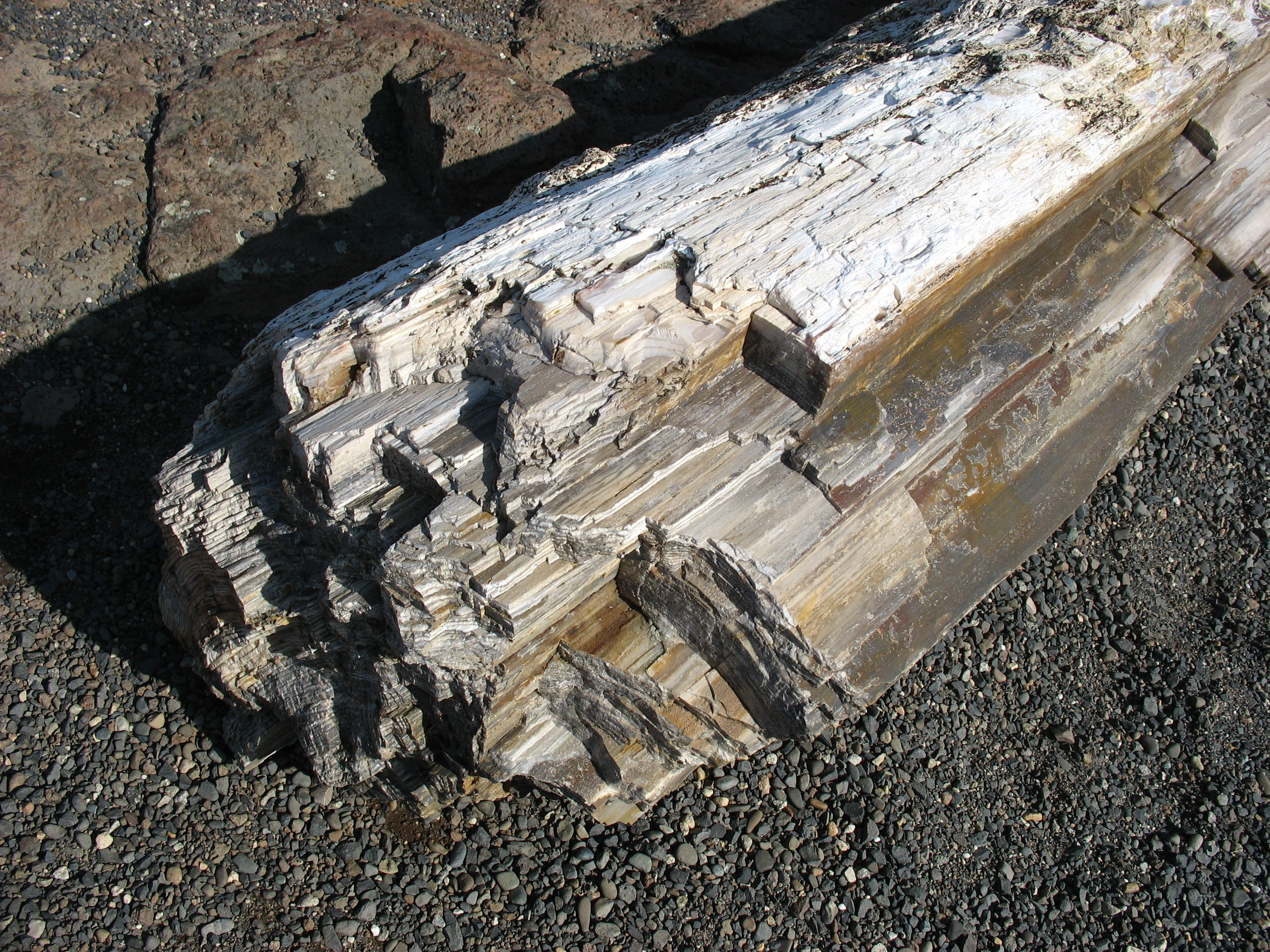 Petrified wood from the Ginkgo Petrified Forest State Park in Washington state, USA. Photographed by Justin Bastow.